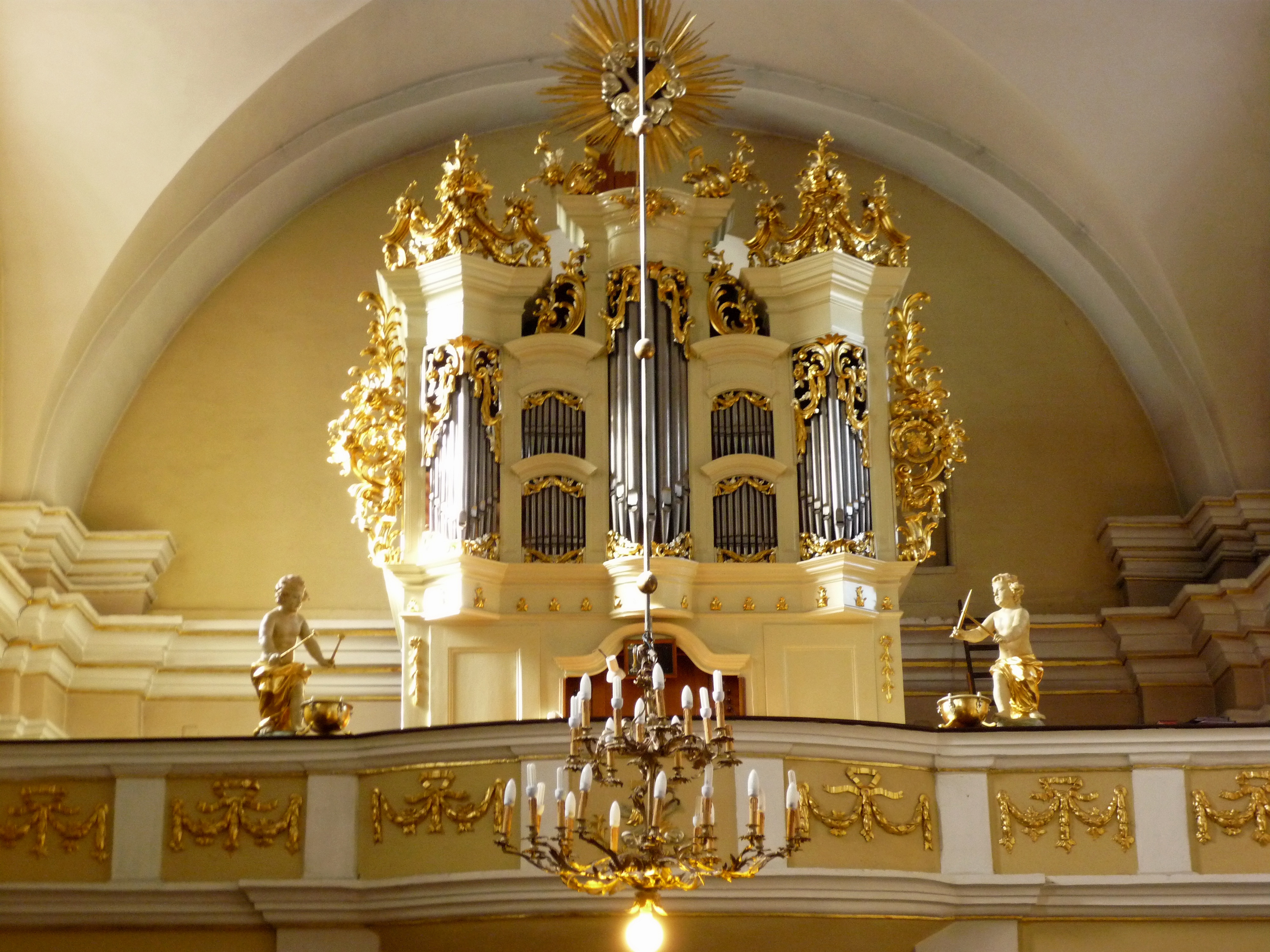 Łódź-Łagiewniki (Poland), St. Anthony of Padua Church - renovated church organ